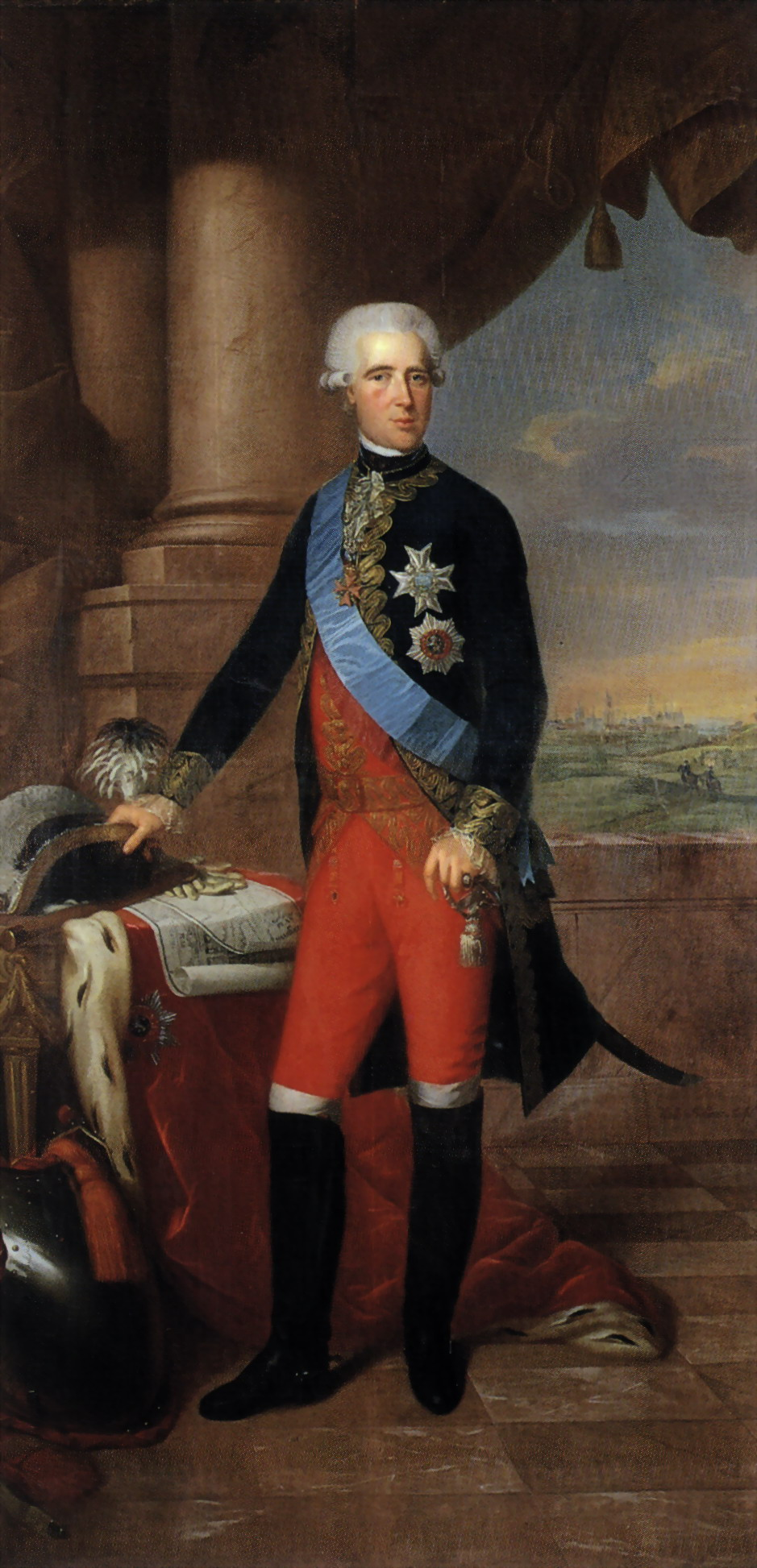 Frederick, prince of Hesse-Kassel (1747-1837), portrait as military governor of Maastricht, painted for the Gouvernors Palace in Maastricht by Wilhelm Böttner, 1787. In the background a view of Maastricht from the west.